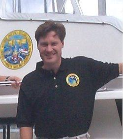 NASA Station Training Lead and NEEMO Mission Director and aquanaut Marc Reagan. From NASA photo in public domain.